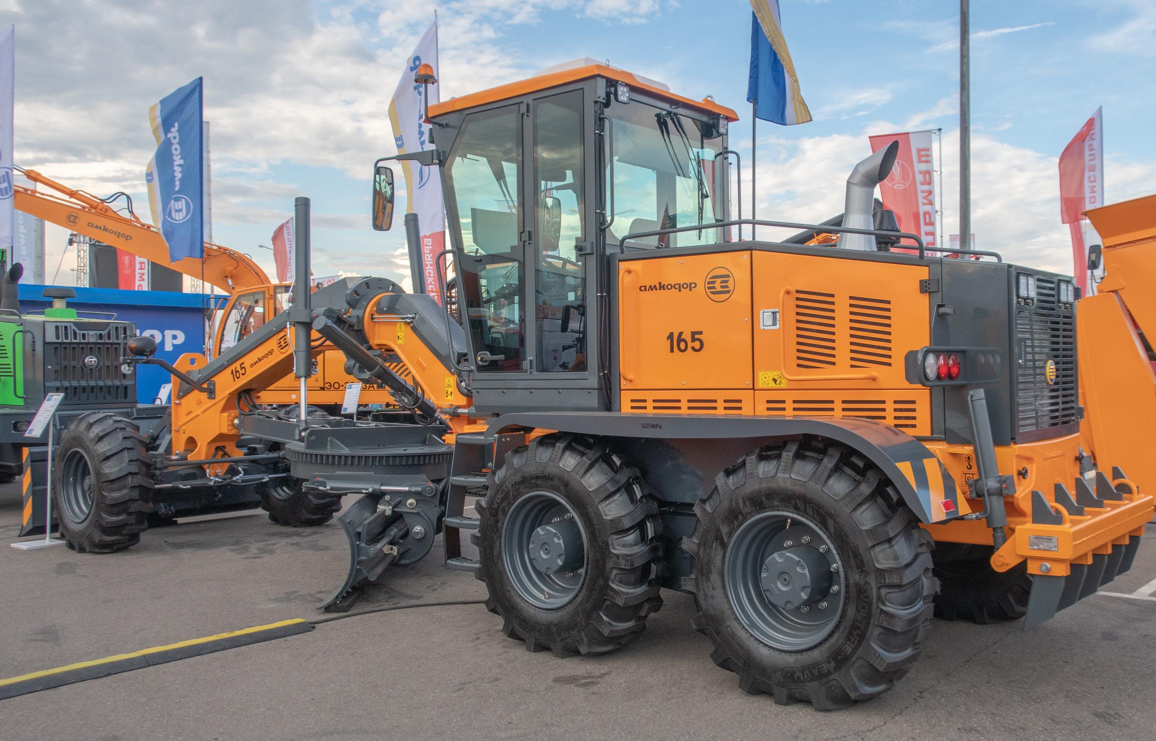 Amkodor 165 vehicle. Photo taken at Belagro-2019 exhibition (Minsk district, Belarus)